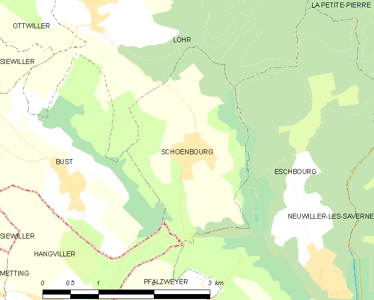 Map of French municipality